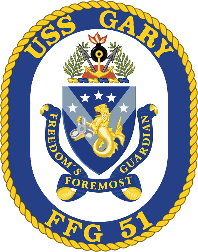 Emblem of the USS Gary FFG-51